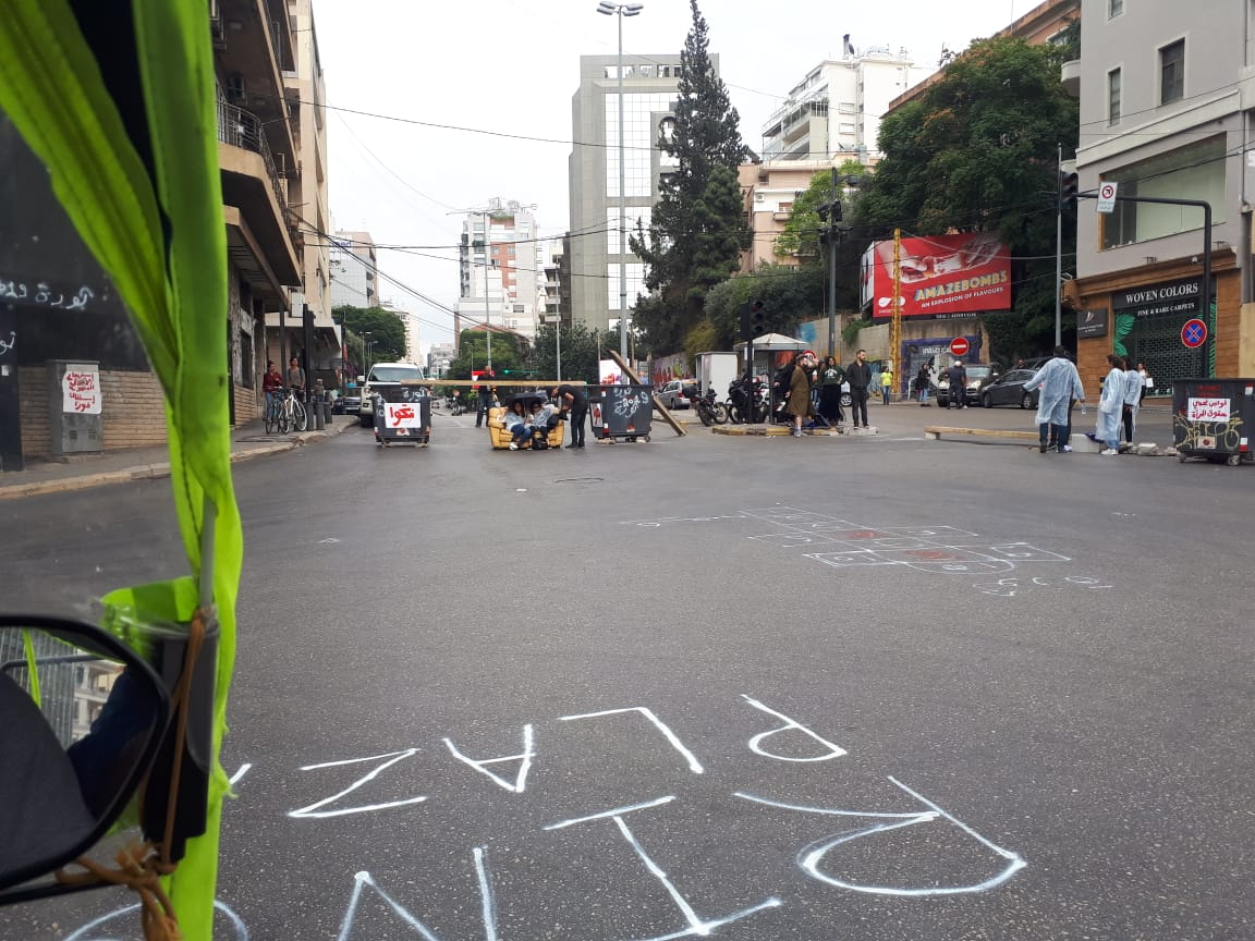 Protests in Beirut